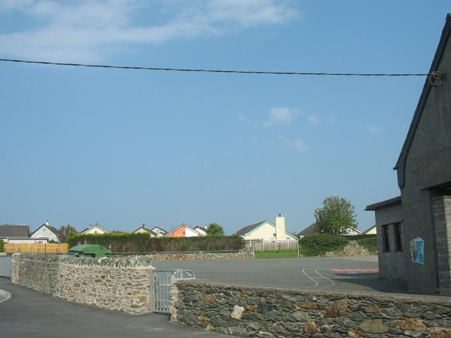 The yard of Ysgol Bodffordd and an estate of bungalows Ysgol Bodffordd is the local primary school.